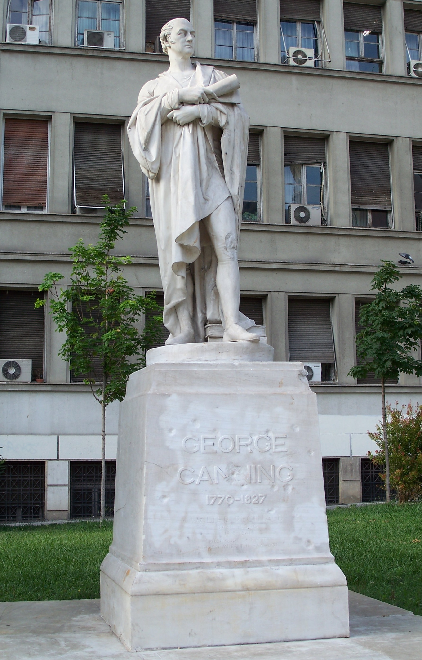 Statue of George Canning at the square that bears his name, Kaningos square (Πλατεία Κάνιγγος) in Athens.